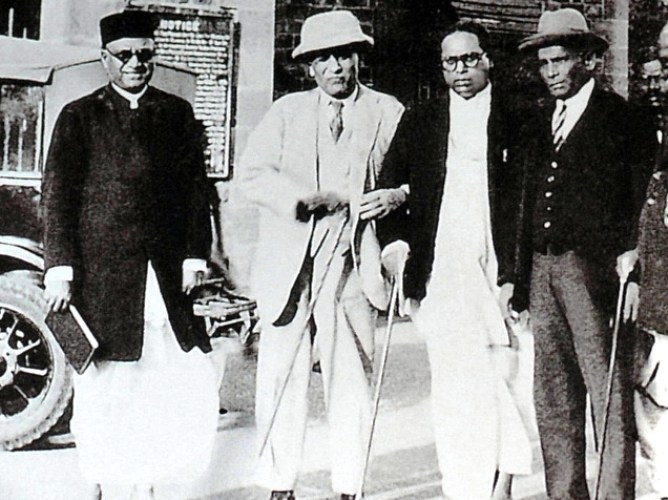 पूणे मधील येरवडा येथे डॉ. बाबासाहेब आंबेडकर, एम.आर. जयकर व तेज बहादूर. या दिवशी बाबासाहेबांनी पूणे करारावर सही केली.